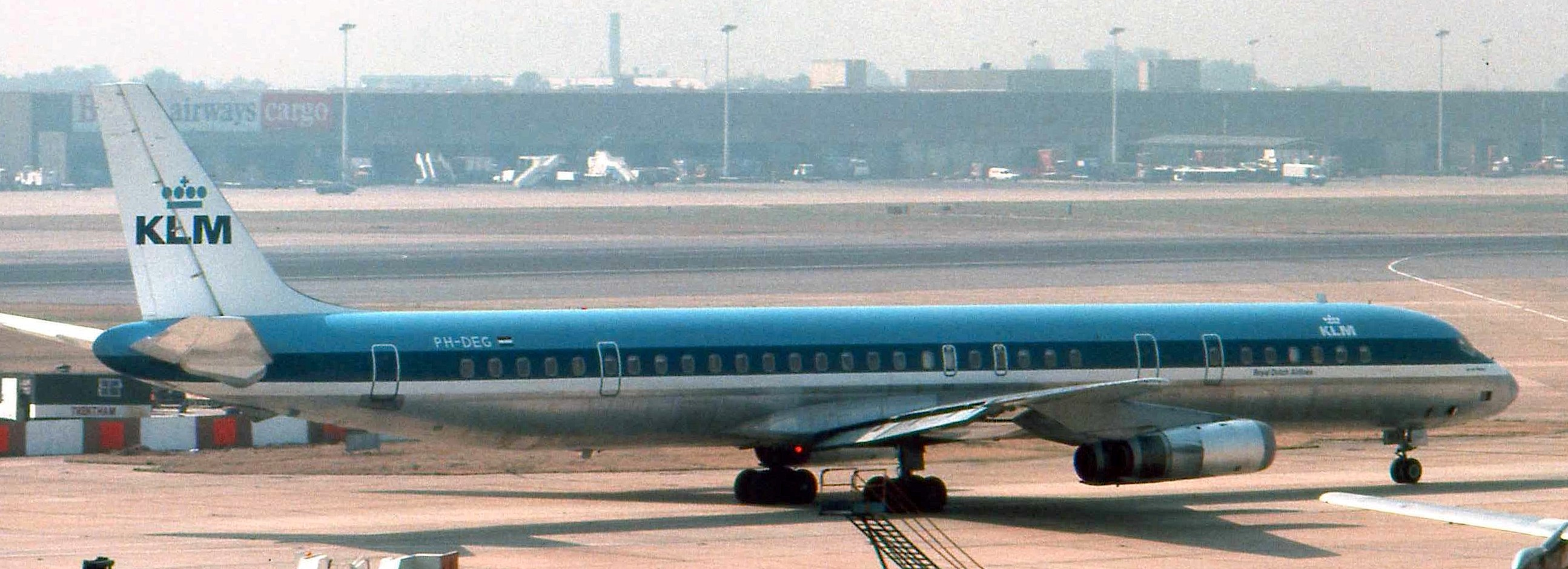 KLM DC-8 63, PH-DEG, c/n 46092, “Jan van Riebeek” delivered on December, 23, 1969.